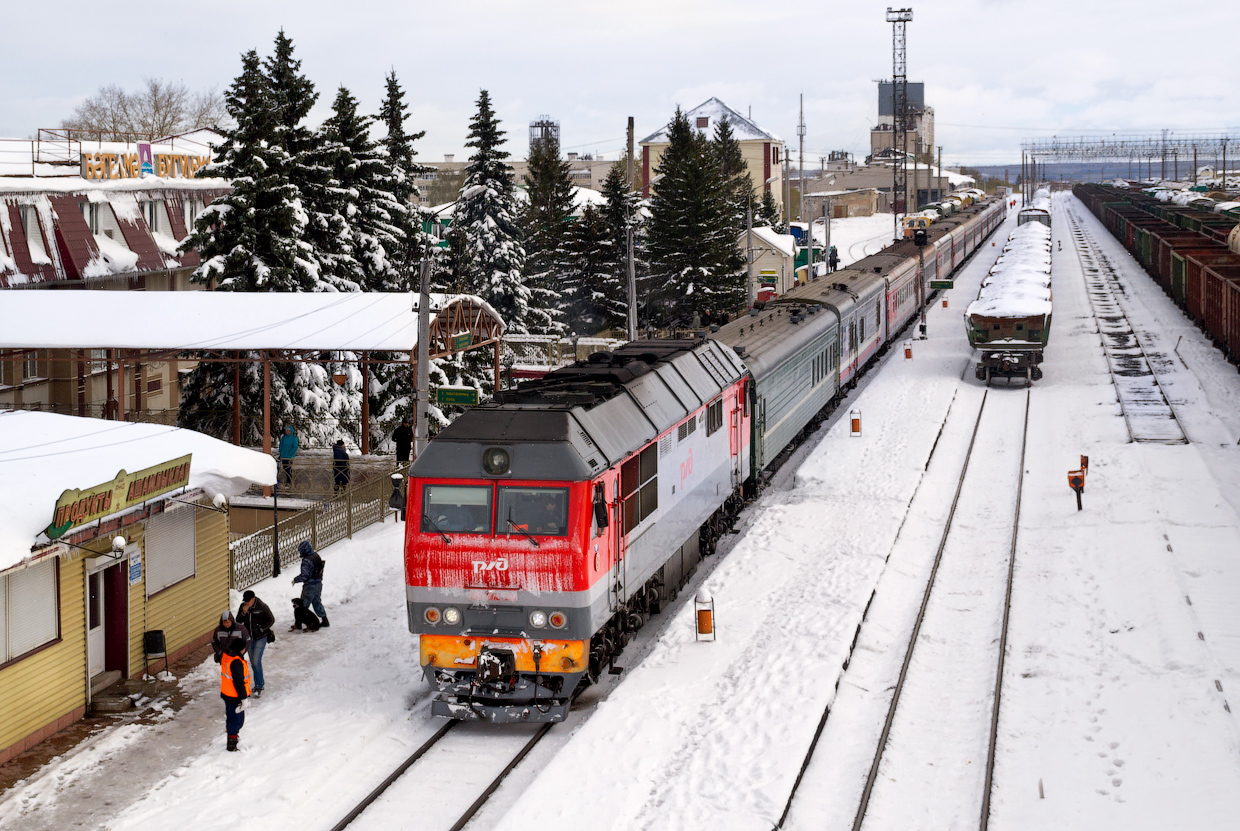 Diesel locomotive TEP70BS-216 with passenger train № 391 (Chelyabinsk - Moscow) at Bugulma station, Tatarstan republic, Russia